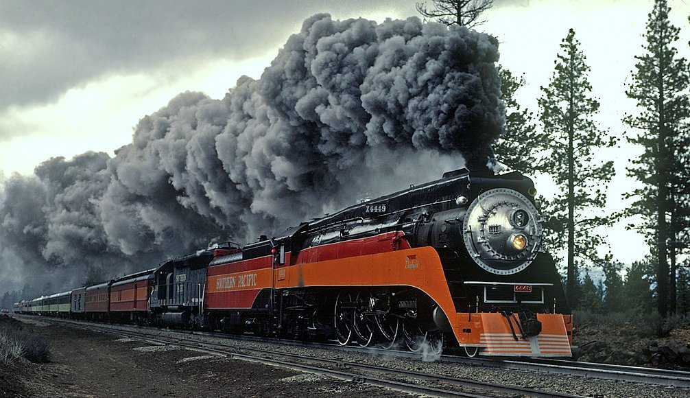 SP 4449 (with SDP45 #3208 helping) at Bray, CA on the way to Railfair 1981 at Sacramento